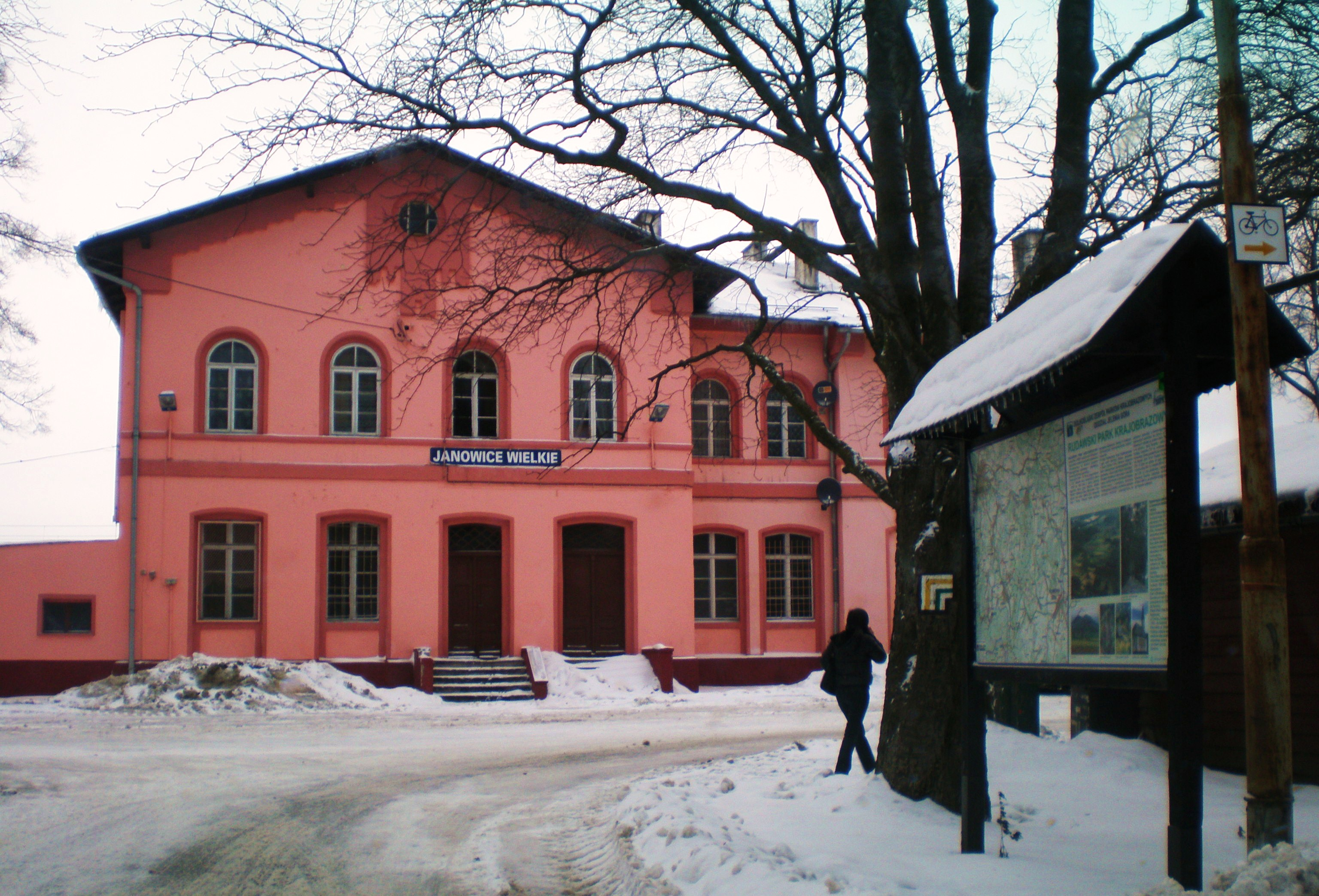 Janowice Wielkie - Kolejowa Street - Railway station